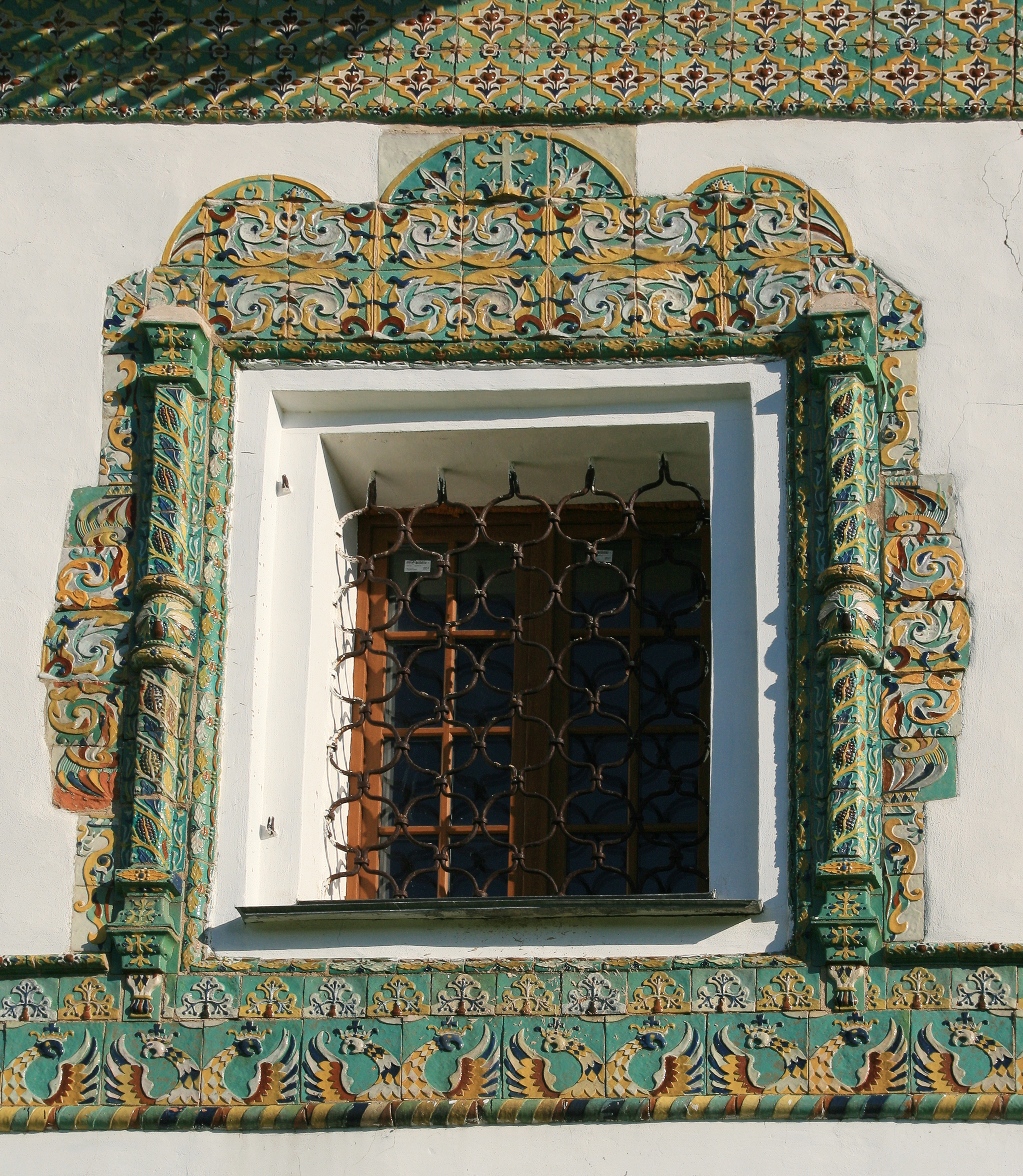 Nikolo-Vyazhishchsky Convent in Veliky Novgorod